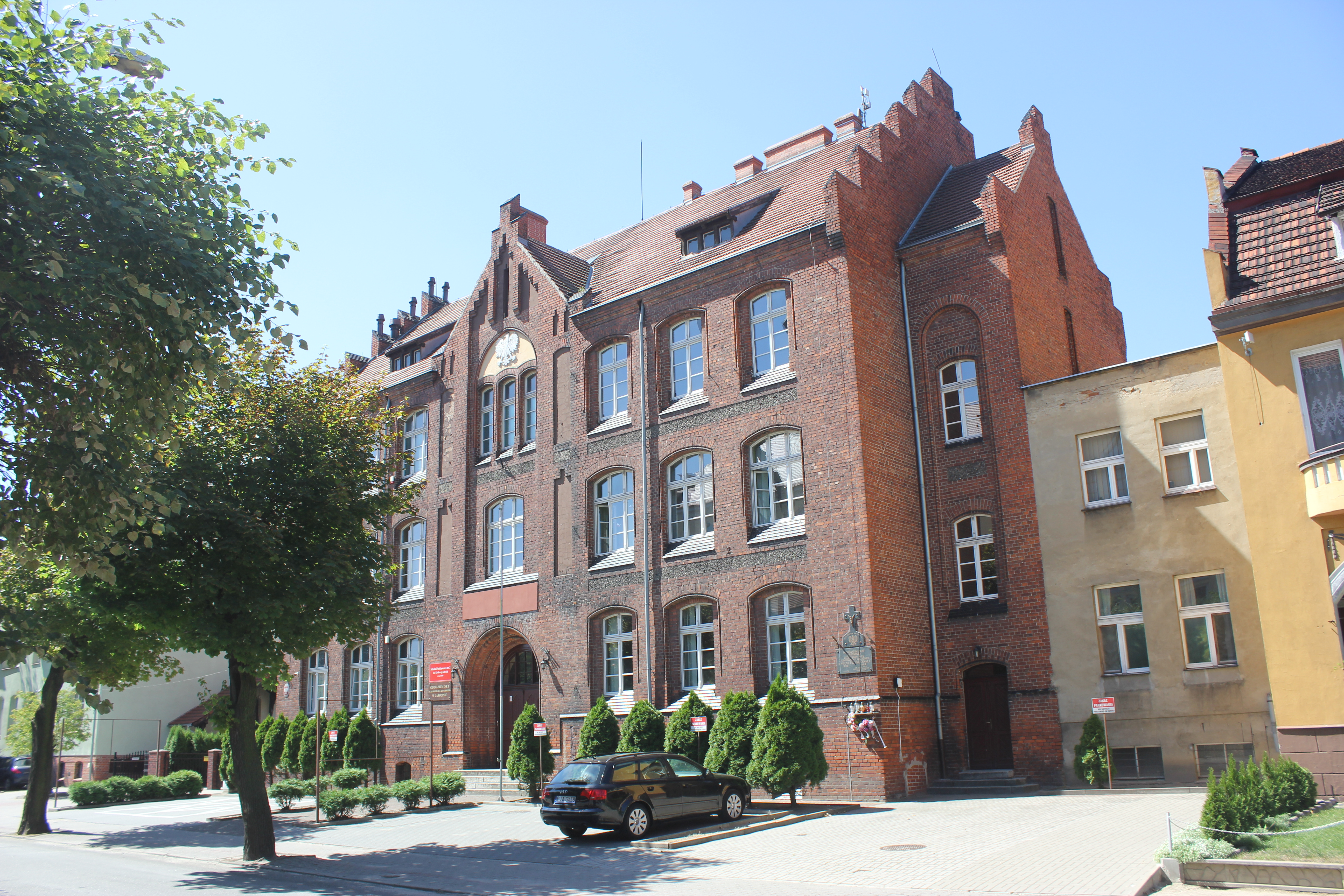 Jarocin - Gymnasium No. 1 building